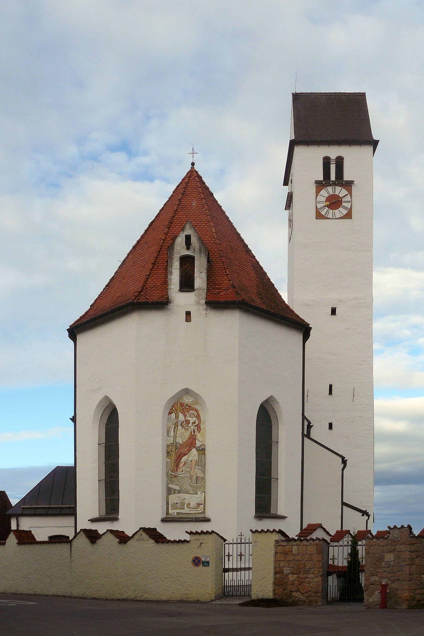 St Maria and Florian in Schwangau-Waltenhofen